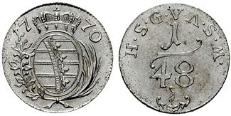 GERMAN STATES, Saxe-Gotha-Altenburg. Friedrich III. 1732-1772. AR 1/48 Thaler (17mm, 1.34 gm). Dated 1770. Crowned ducal coat-of-arms / Value. KM 15. UNC.